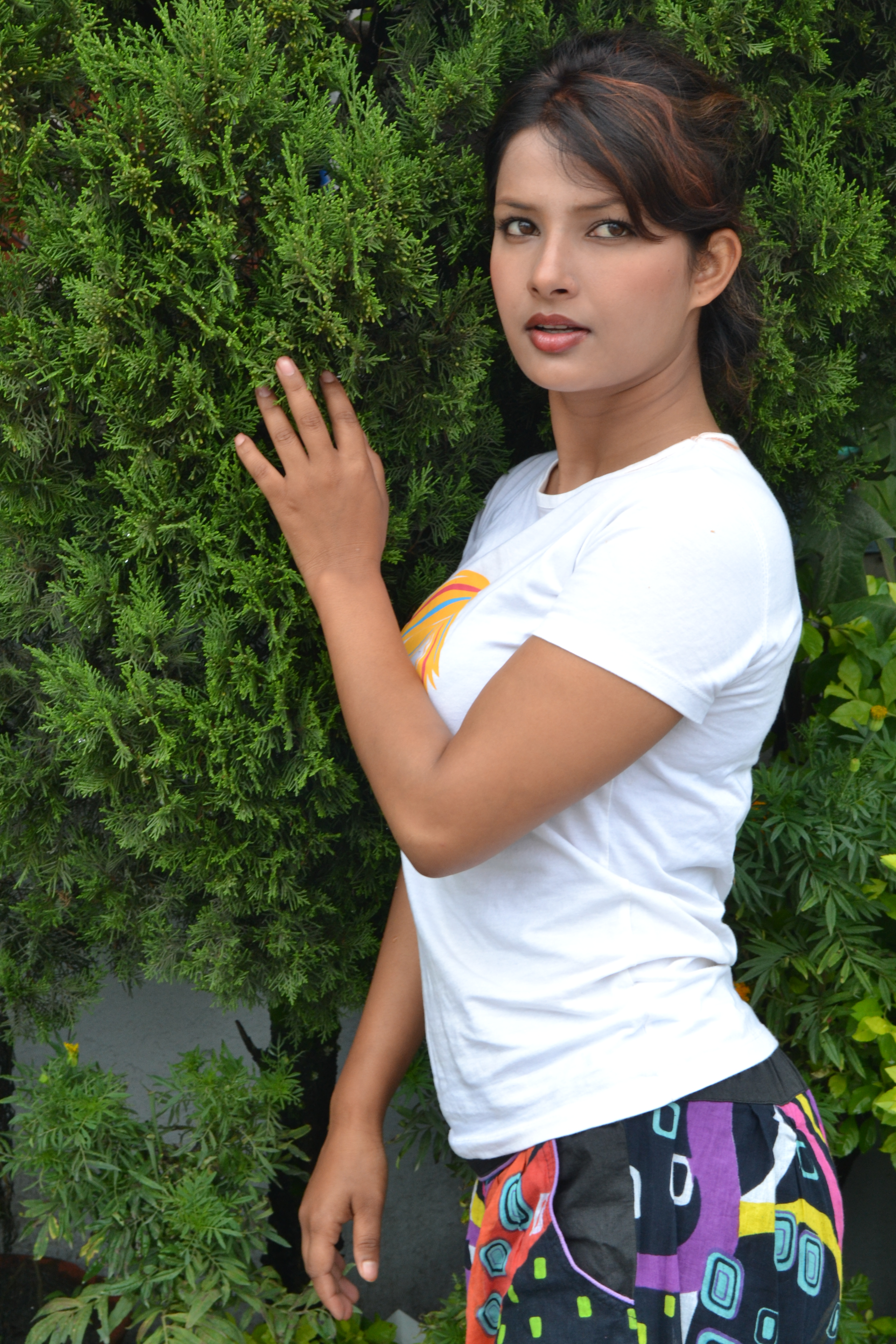 Nepali actress Sumina Ghimire .